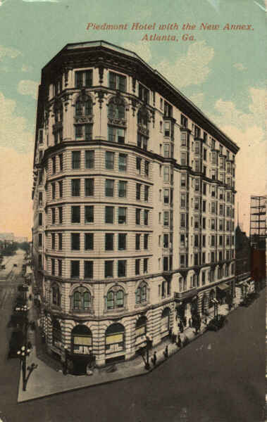 Postcard of Piedmont Hotel, Atlanta, 1913